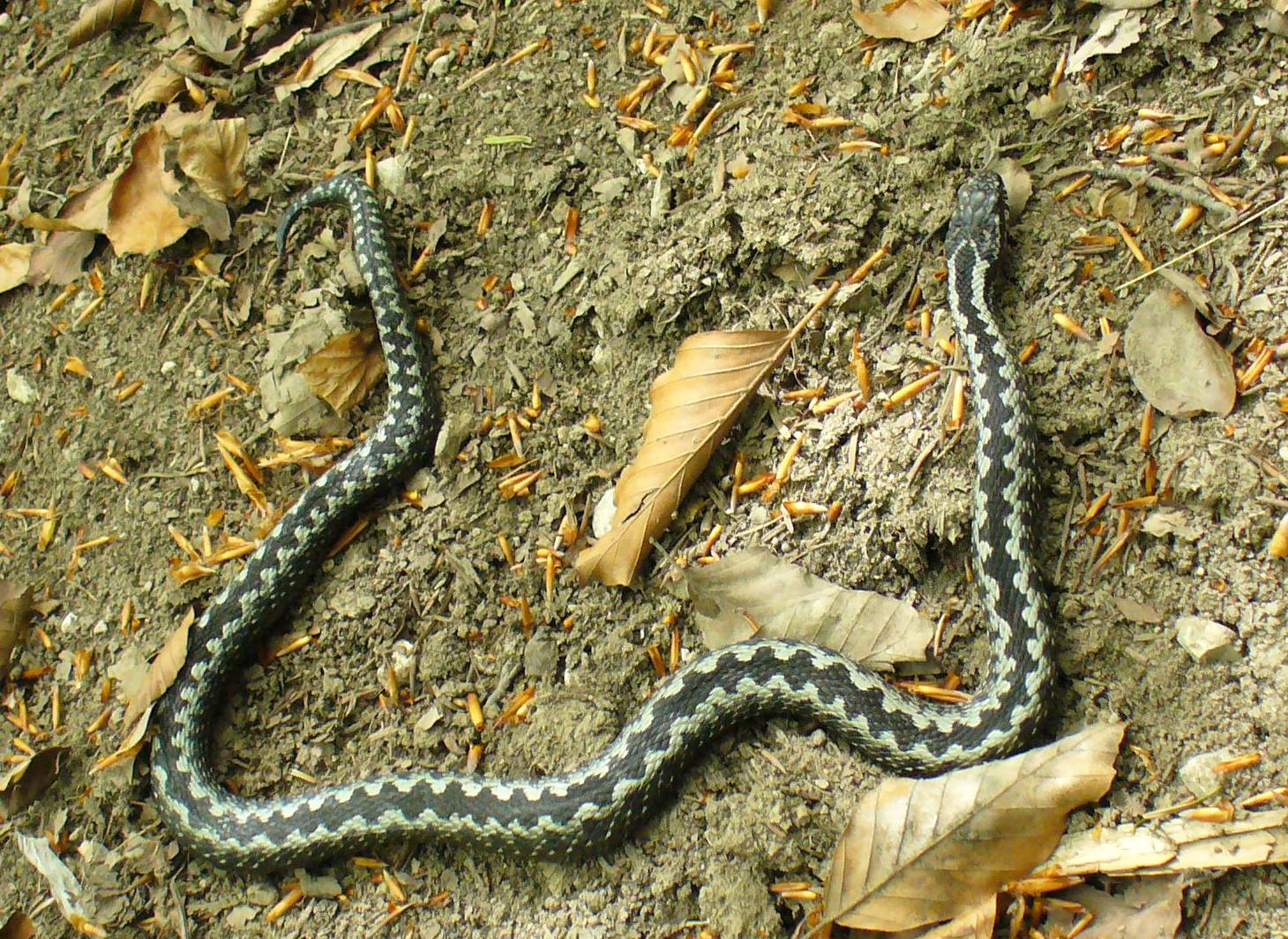 Vipera berus (photography made in Pieniny)